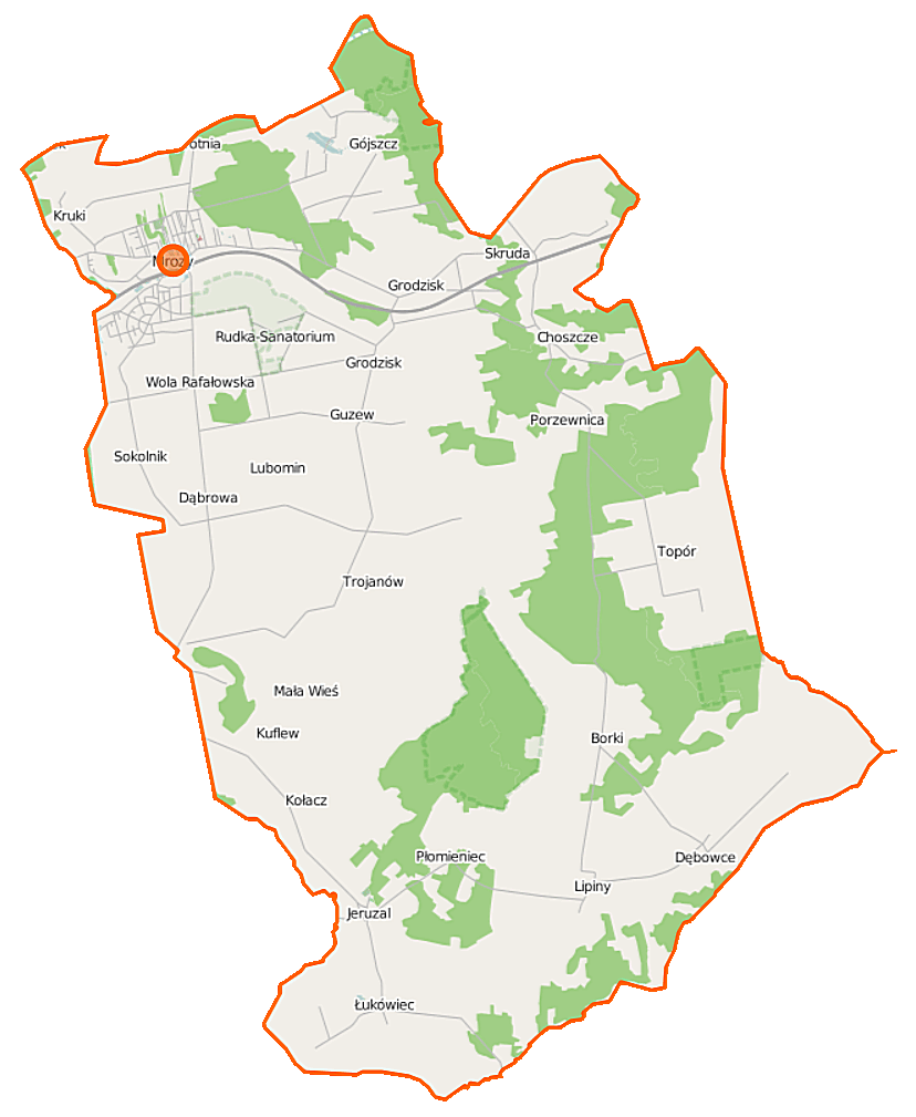 Map of Gmina Mrozy, PolandThis map of Mrozy (gmina) was created from OpenStreetMap project data, collected by the community. This map may be incomplete, and may contain errors. Don't rely solely on it for navigation.